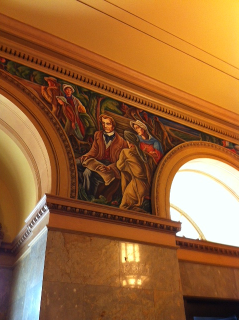 Close-up of Howard Cook's fresco "San Antonio's Importance in Texas History" in the lobby of the Hipolito F. Garcia Federal Building, San Antonio, Texas. The 16-panel fresco was commissioned by the Treasury Department's Fine Arts Section and installed between 1937 and 1939.